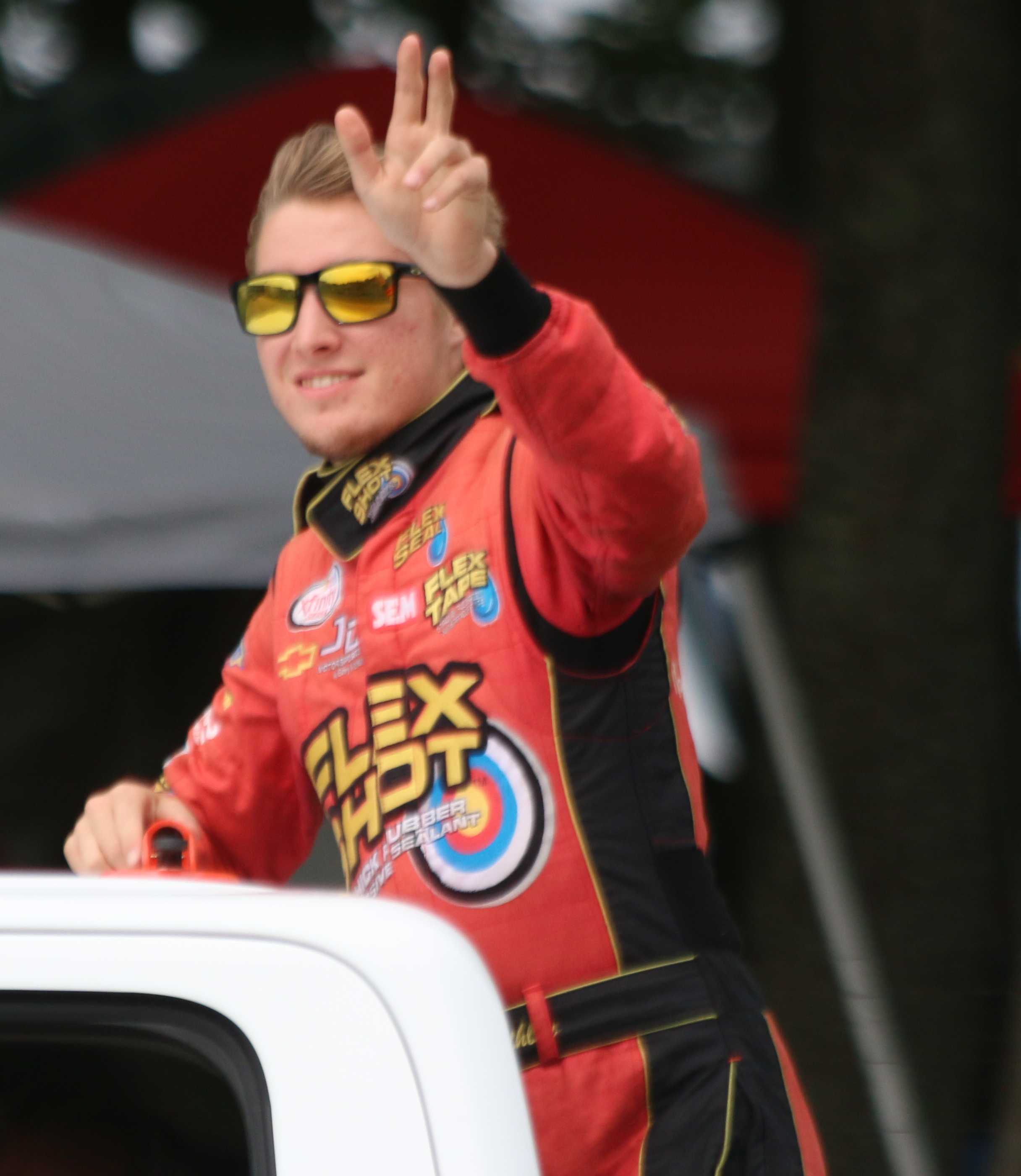 NASCAR driver Garrett Smithley during the driver's introductions lap at the 2017 Johnsonville 180 race in the Xfinity Series race at Road America.